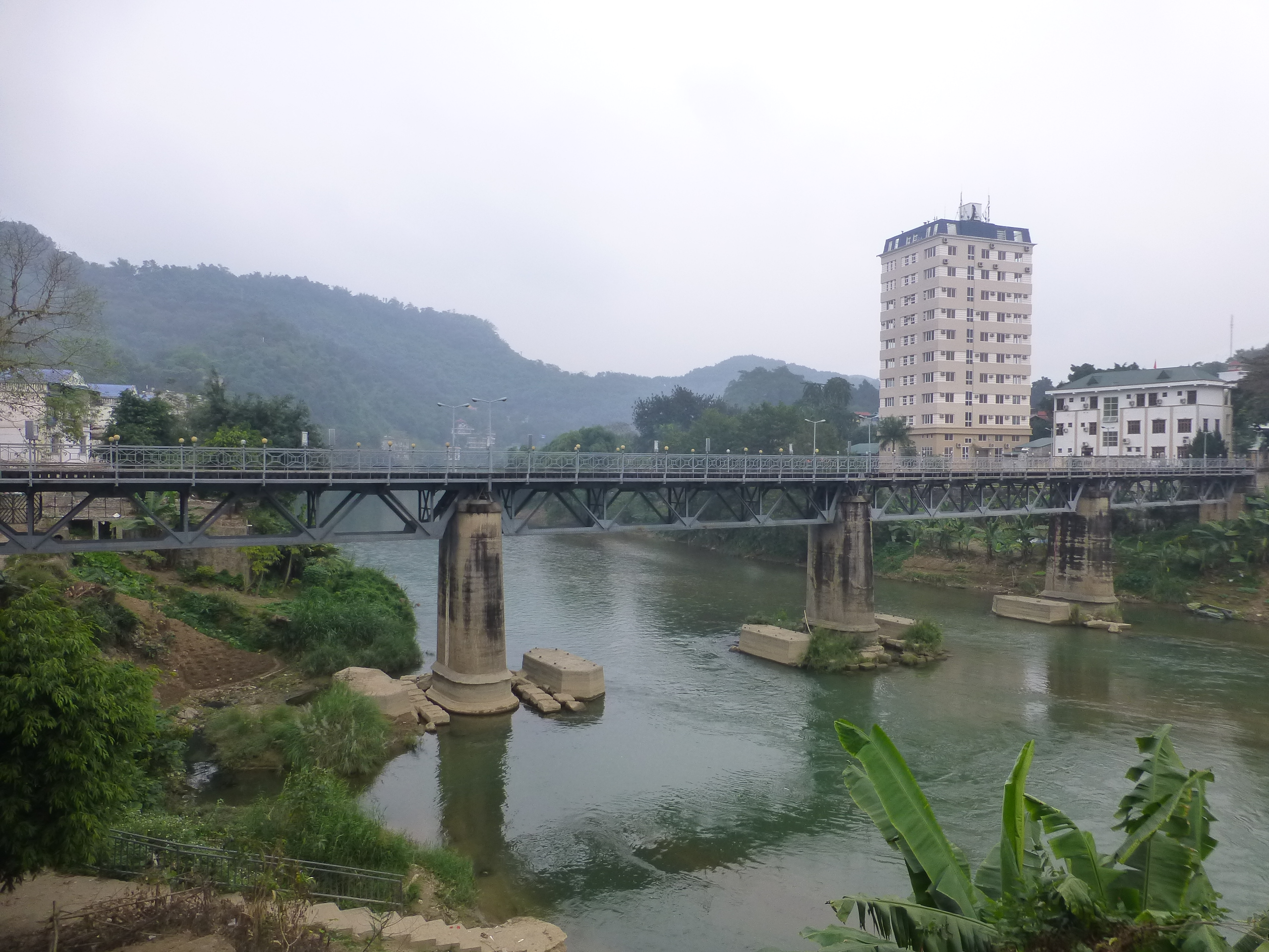 The bridge across the Nanxi River, between Hekou (China) and Lao Cai (Vietnam) on the Vietnam-Yunnan Railway.